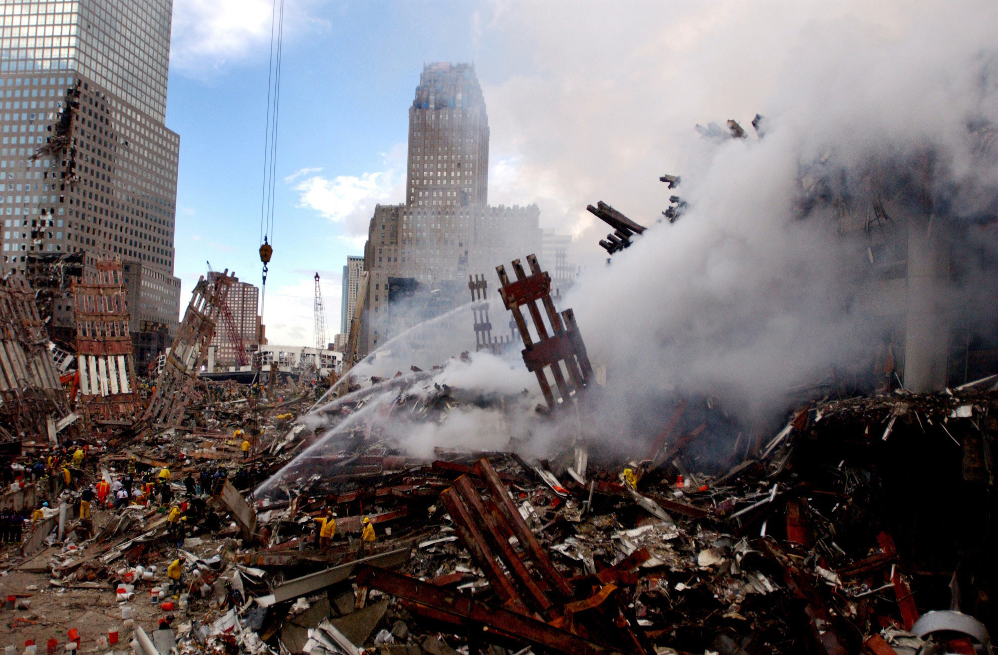 Two days after the 9/11 terrorists attacks the fires still burn amidst the rubble and debris of the World Trade Center in New York City.